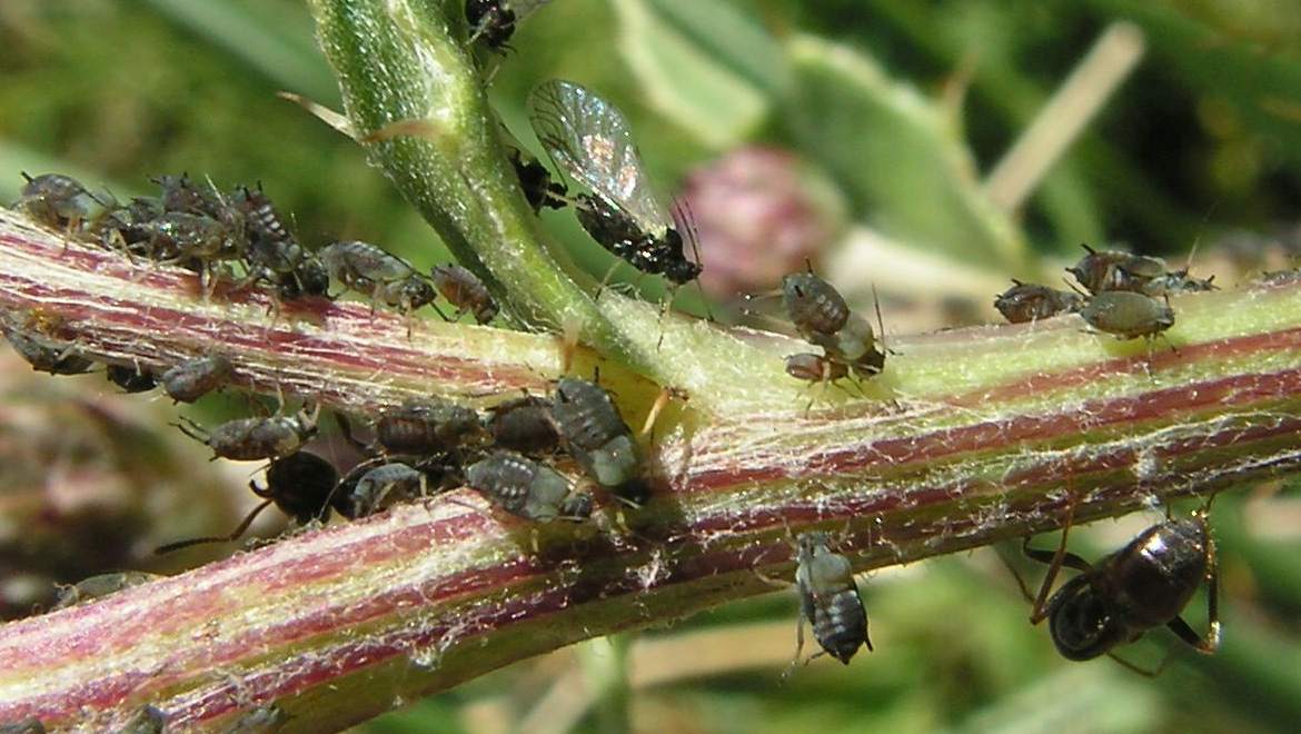 Aphids on a thistle.